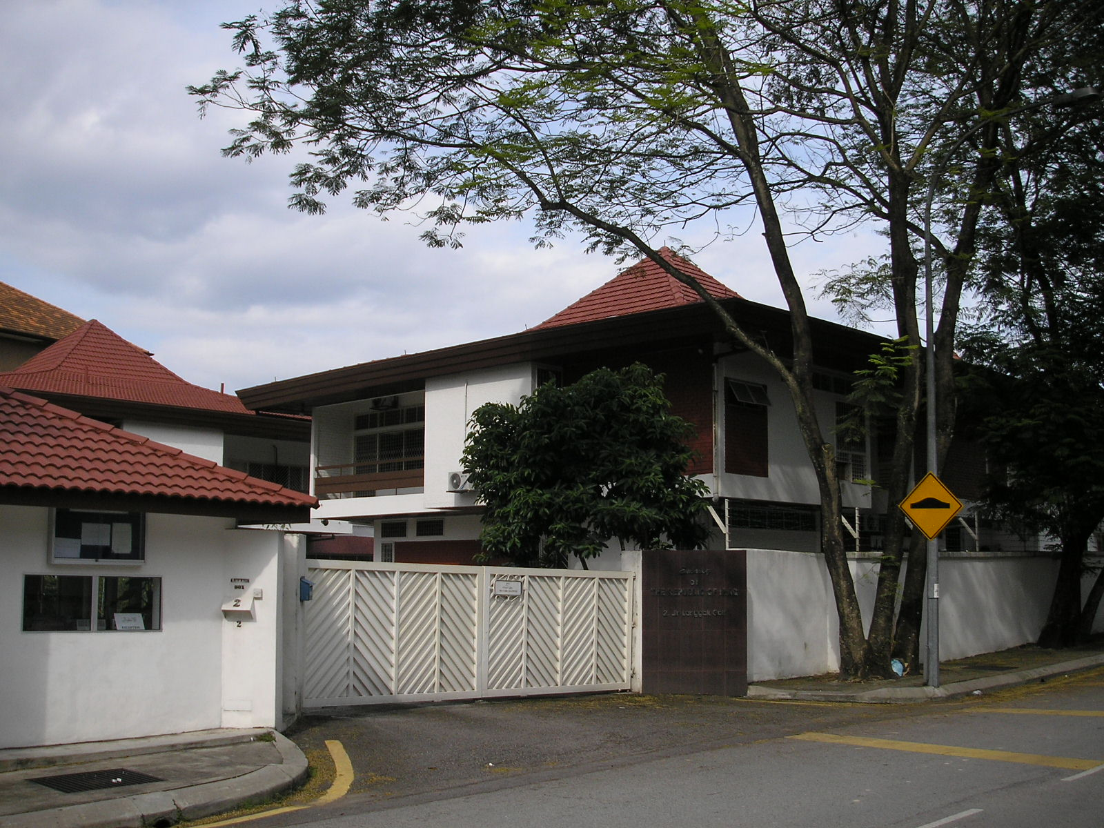 Embassy of Iraq in Kuala Lumpur.